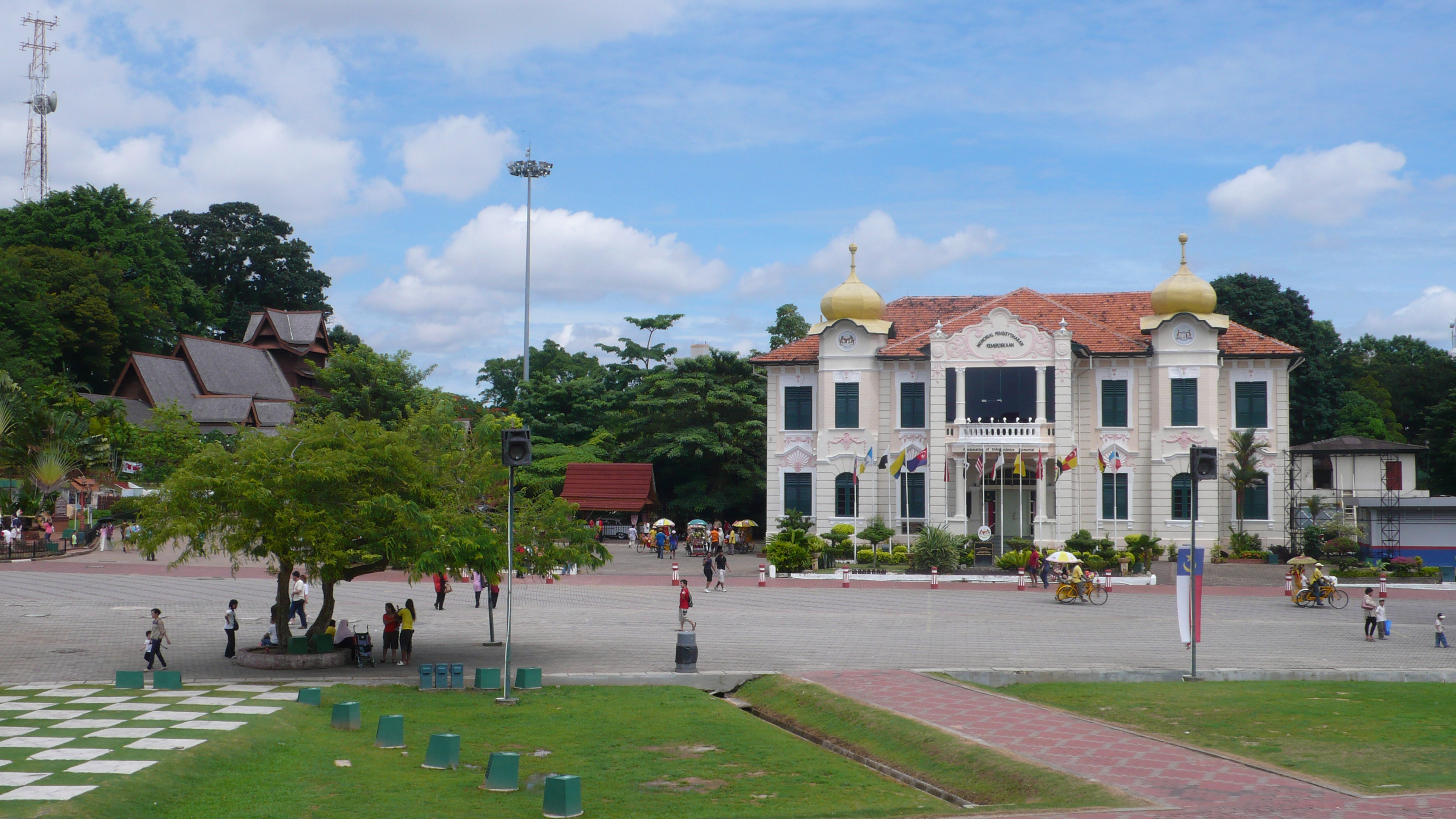 Declaration of Independence Monument and reconstruction of the Sultanate Palace in Malacca / Melaka